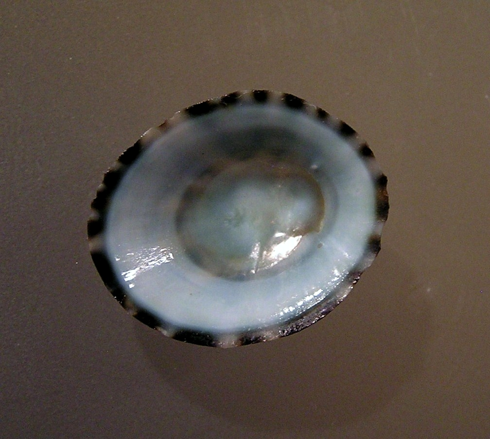 Nipponacmea fuscoviridis Teramachi, 1949, a limpet from the family Lottiidae; Japan